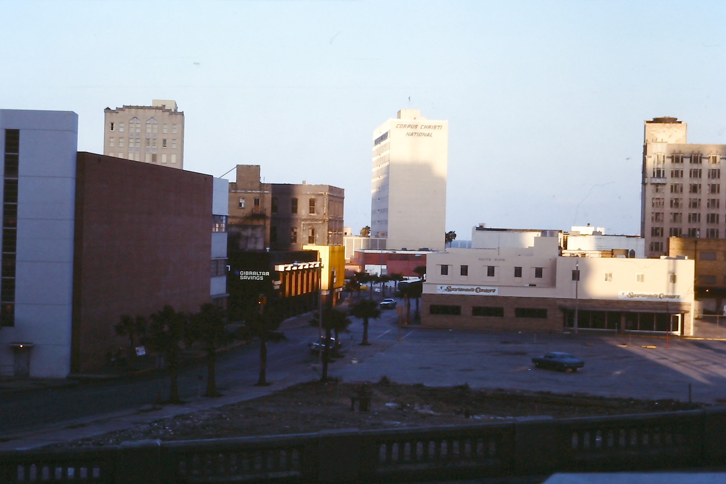 In 2011, this is a much different scene. The library on the left is now La Retama park, Gibralter Savings (the small black building on the left) is a night club, the Sportsmans Center (near the middle of the picture) is an apartment building and restaurant, and the parking lot in the foreground is a Bank of America drive-through bank.